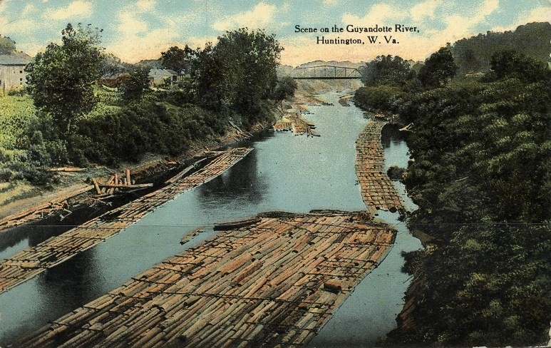 Postcard picture of Guyandotte River in Huntington, West Virginia; eBay store Web page states "Colorized Picture"